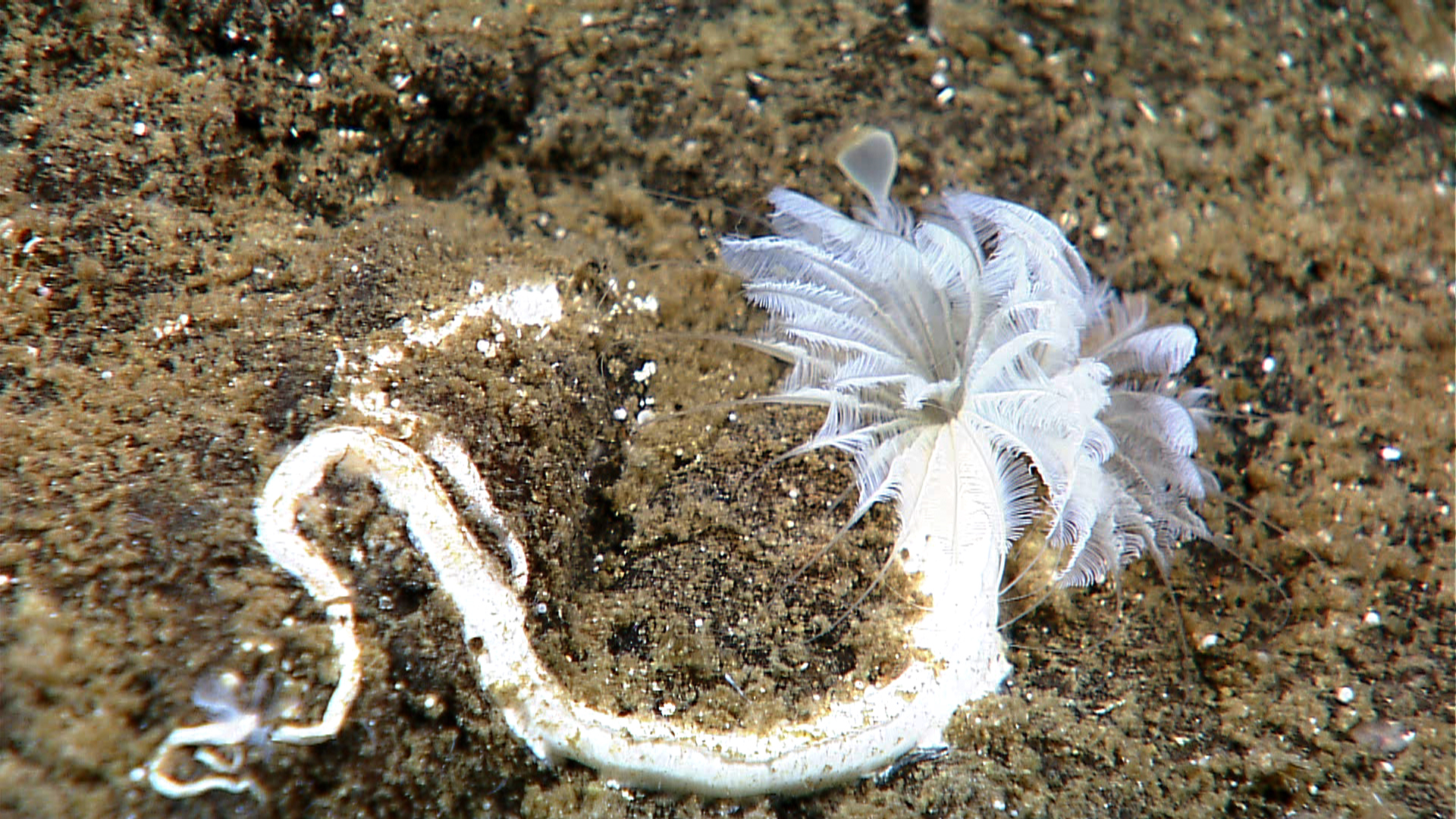 Large white feather duster worm. Image ID: expl6577, Voyage To Inner Space - Exploring the Seas With NOAA Collect Photo Date: 2011 July 23 Credit: NOAA Okeanos Explorer Program, Galapagos Rift Expedition 2011